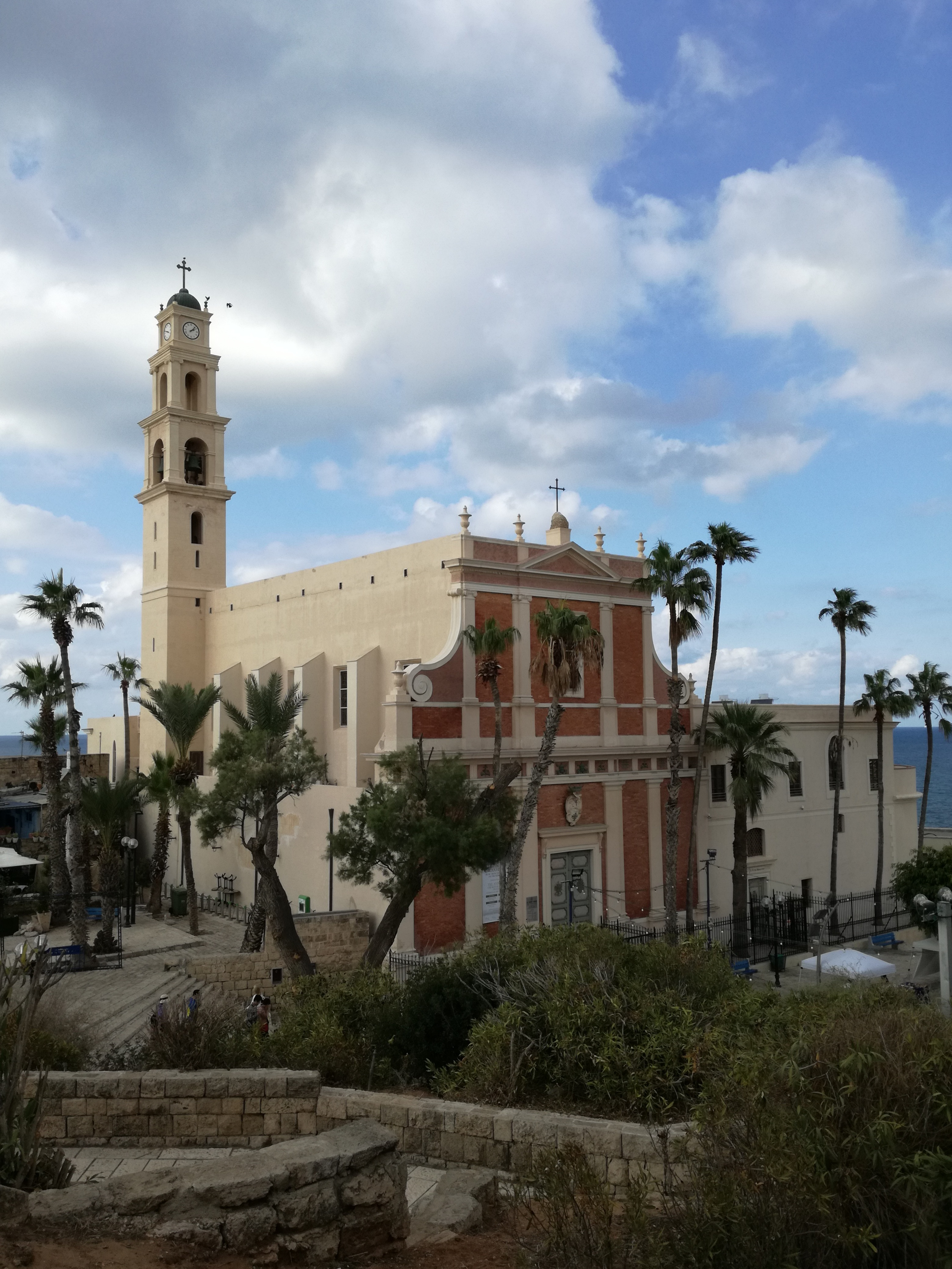 Saint Peter Church in Jafa